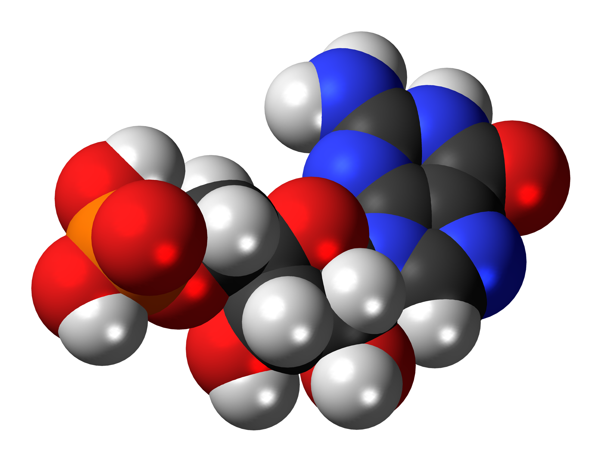 Space-filling model of the guanosine monophosphate molecule, also known as GMP, a nucleotide, which is used as a food additive. This image shows the electrically neutral form. Colour code: Carbon, C: black Hydrogen, H: white Oxygen, O: red Nitrogen, N: blue Phosphorus, P: orange